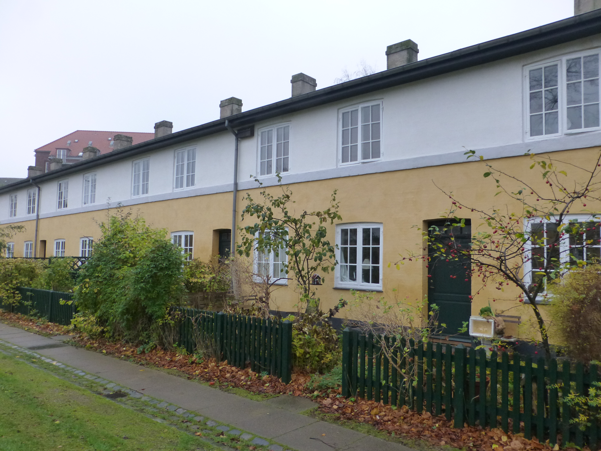 The area Brumleby in Østerbro in Copenhagen.